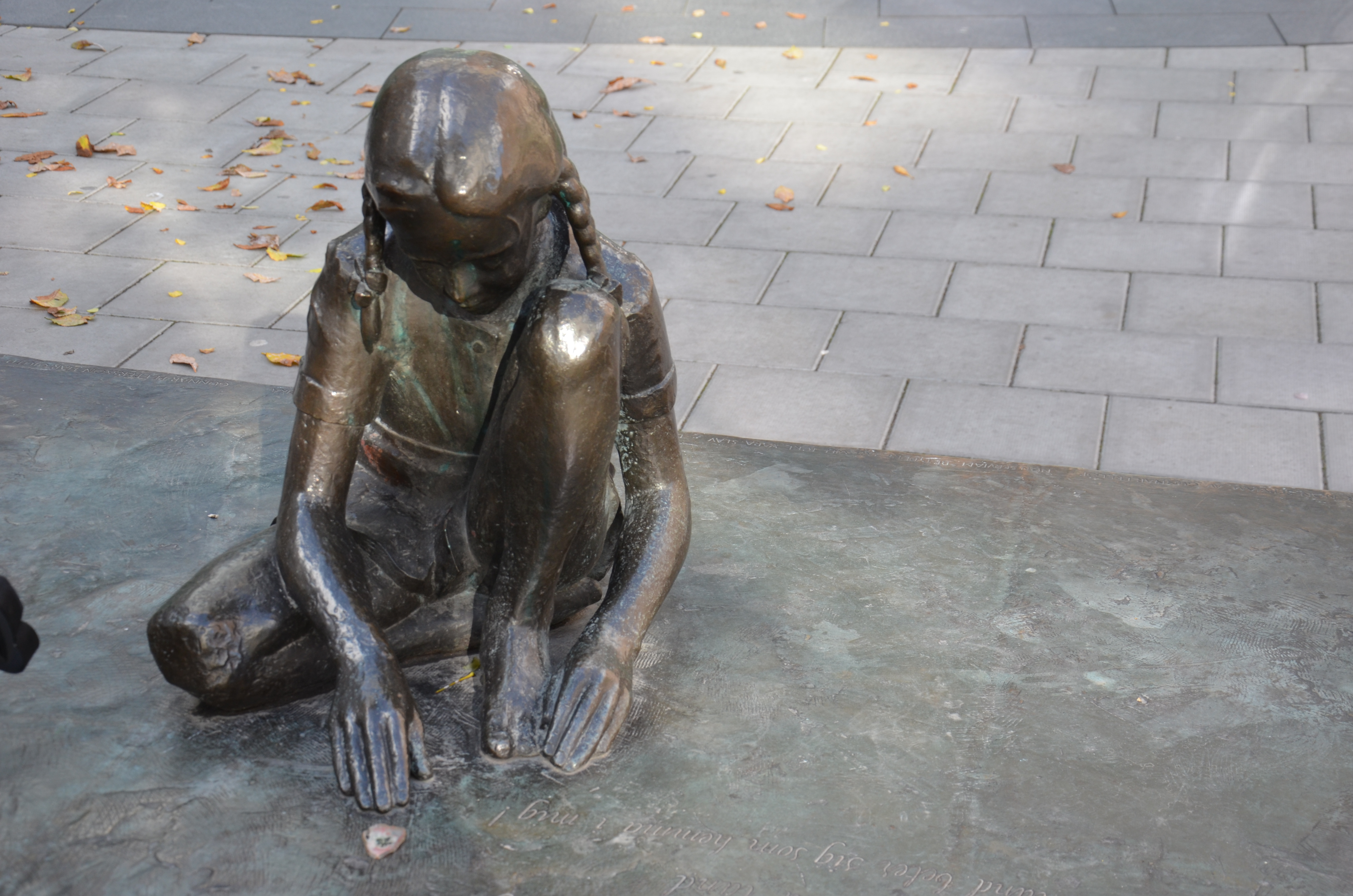 Non Serviam by Ernst Nordin, bronze, Malmskillnadsgatan, Stockholm